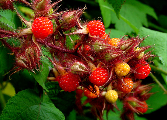 Wineberry